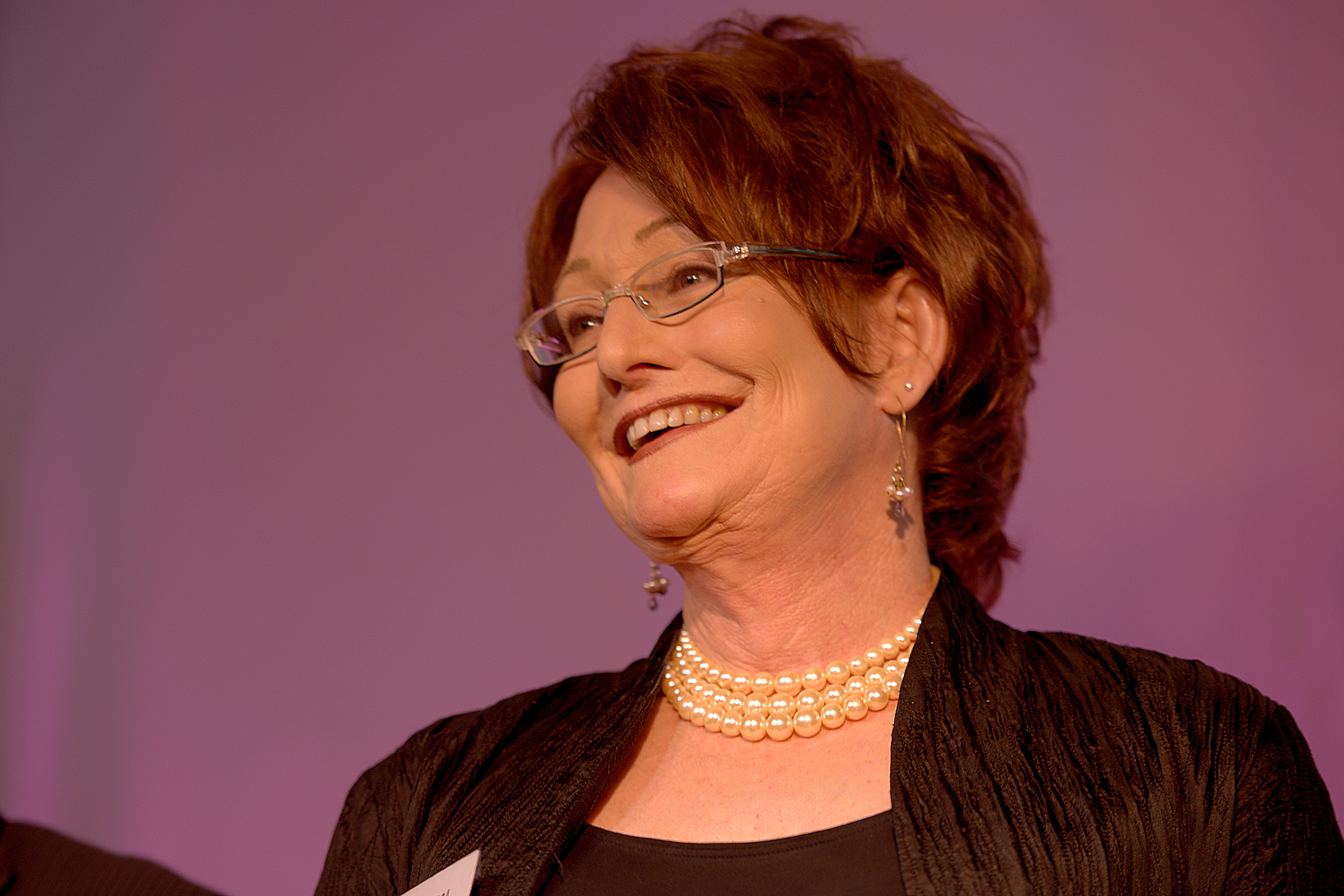 Theresa Sparks at the San Francisco LGBT Community Center's "Soirée 8" event.